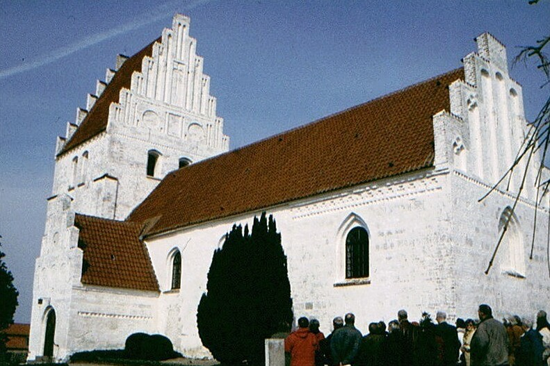 Outside view of Elmelunde Church